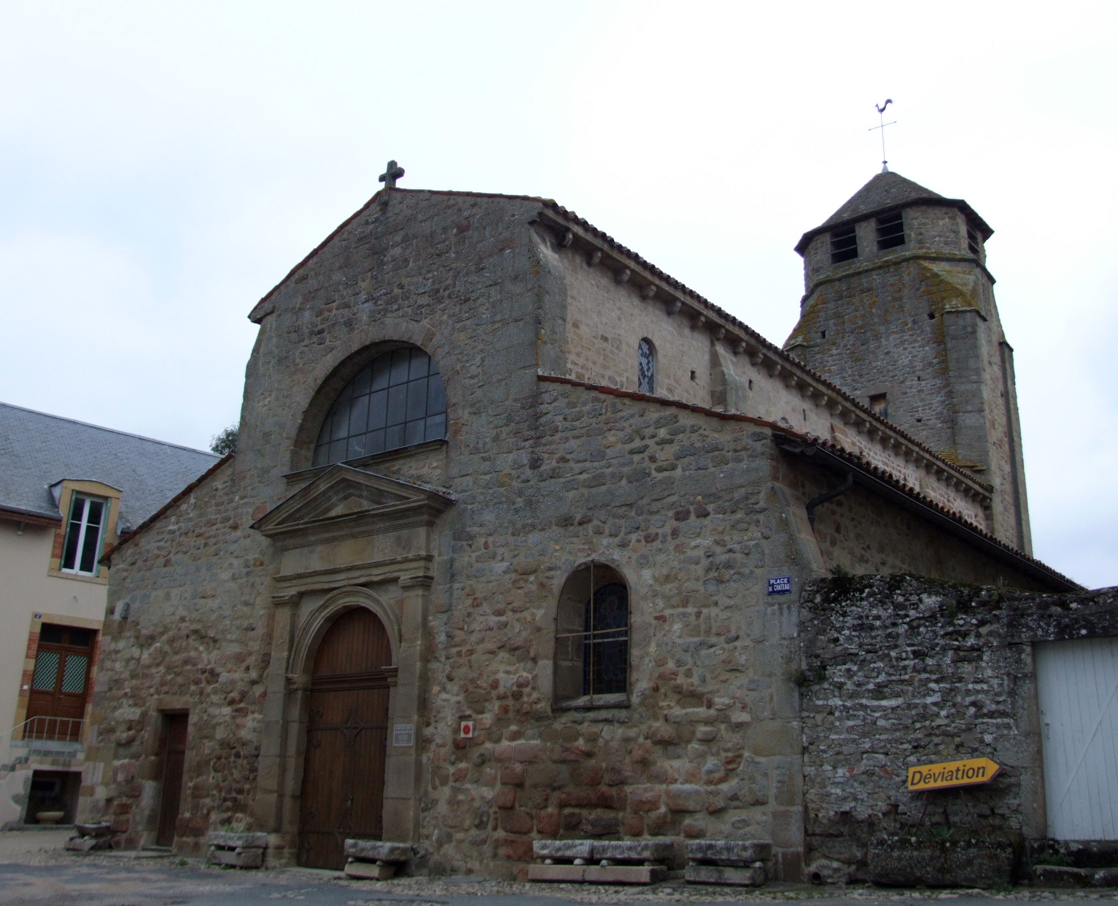 Toulon-sur-Arroux, Burgundy, FRANCE